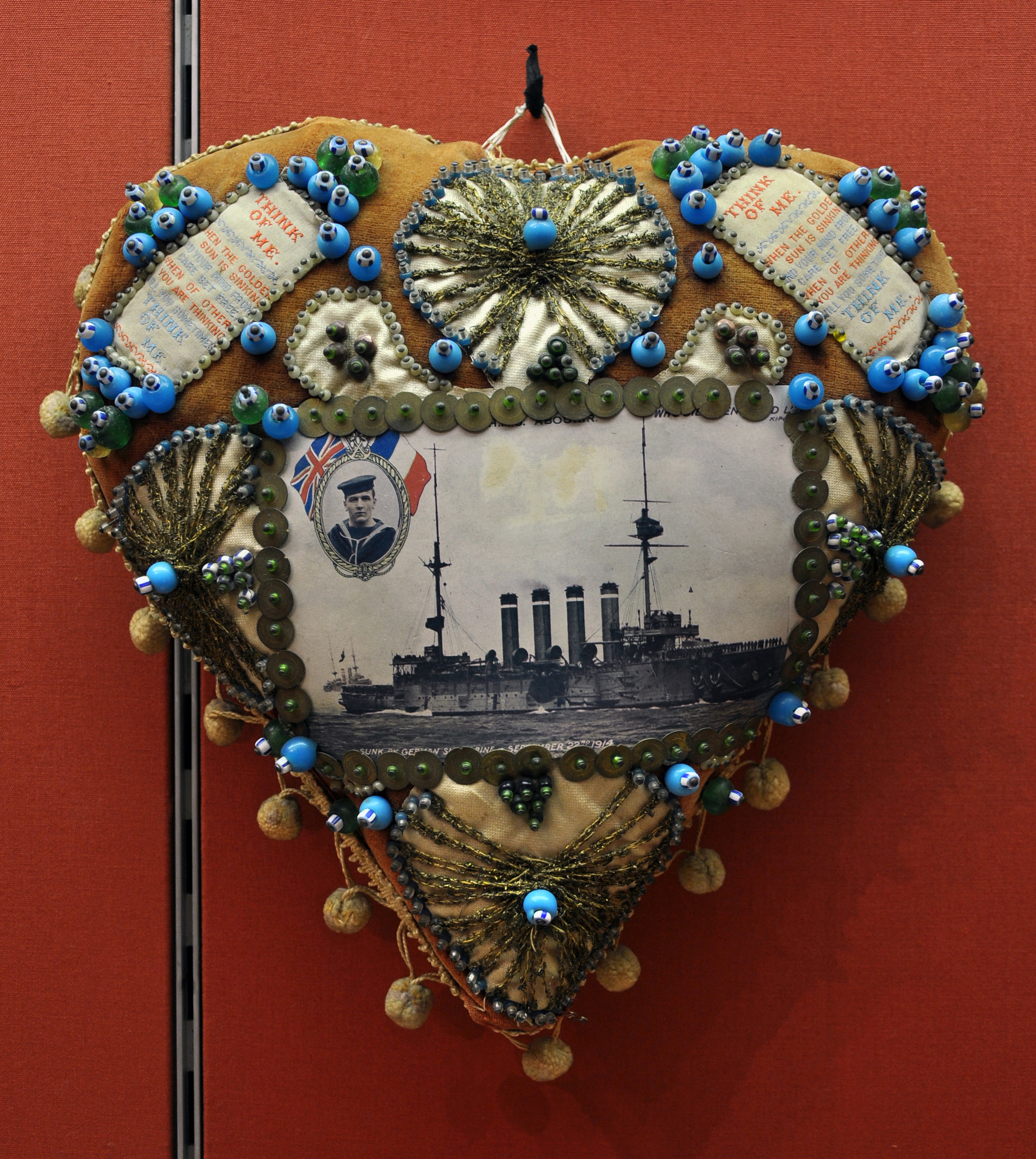 Little cushion, a love token made by a sailor ; England, about 1914. Musée du Coeur ( collection of Mr and Mrs Boyadjian ), MRAH, Jubilee Park, Brussels.